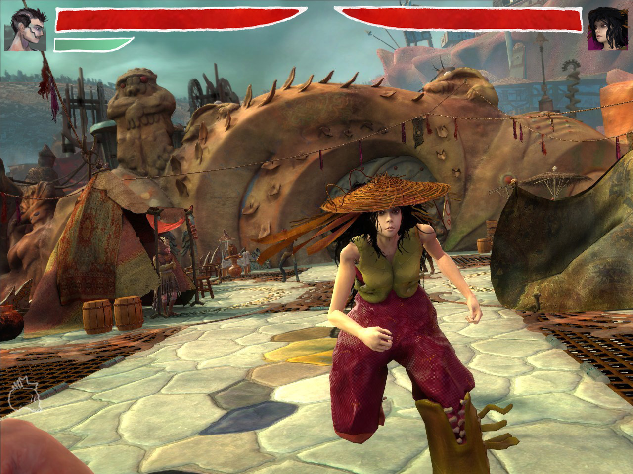 Zeno Clash screenshot. Released in 2009, the game was developed by ACE Team and is powered by Valve Software's Source engine.